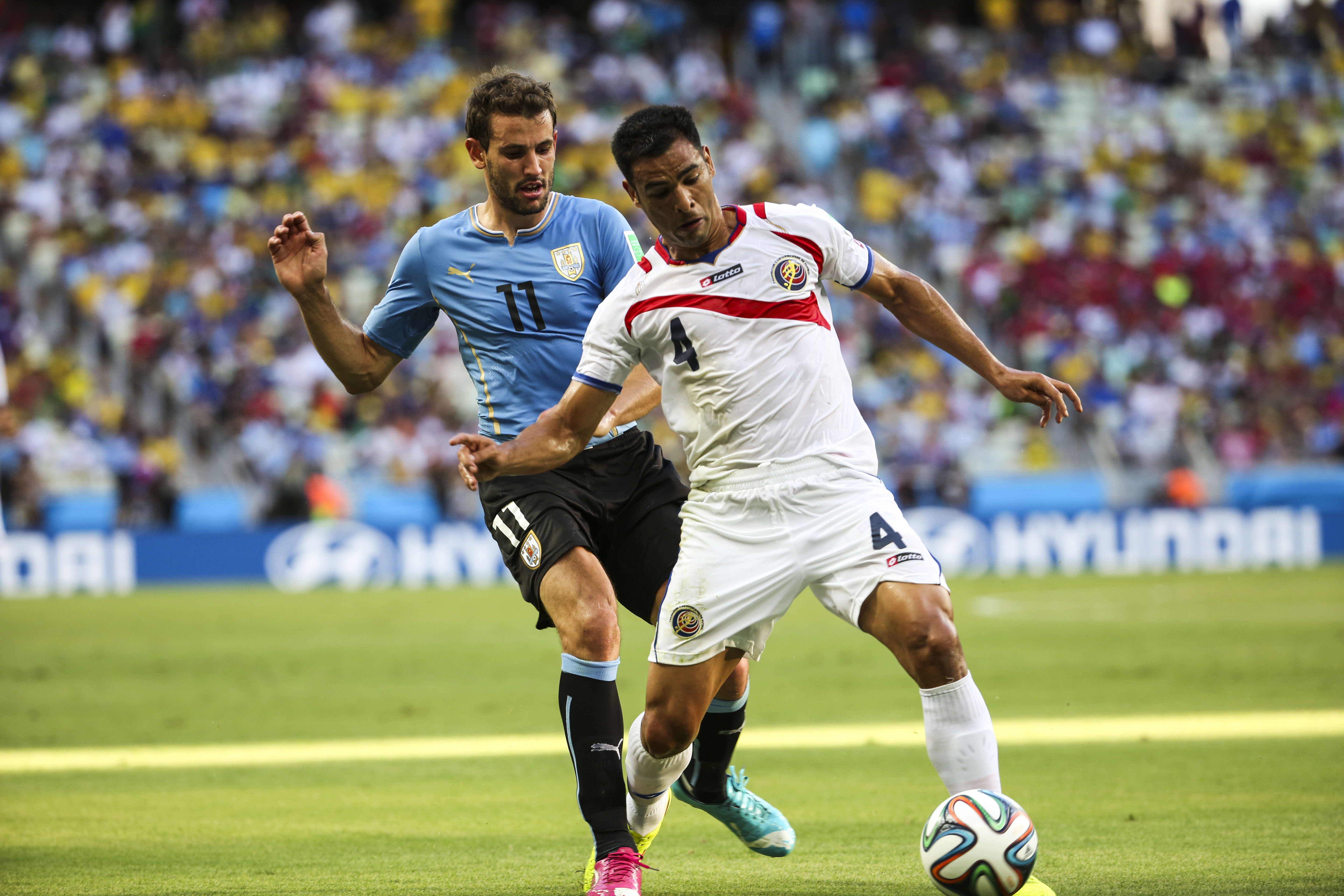 Uruguay and Costa Rica match at the FIFA World Cup 2014-06-14